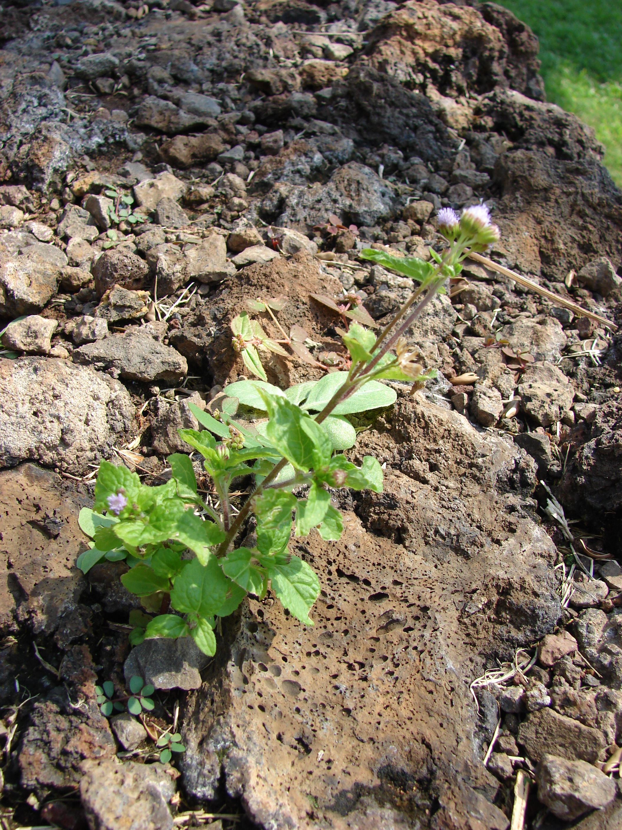 Ageratum conyzoides (flowering habit). Location: Maui, palauea